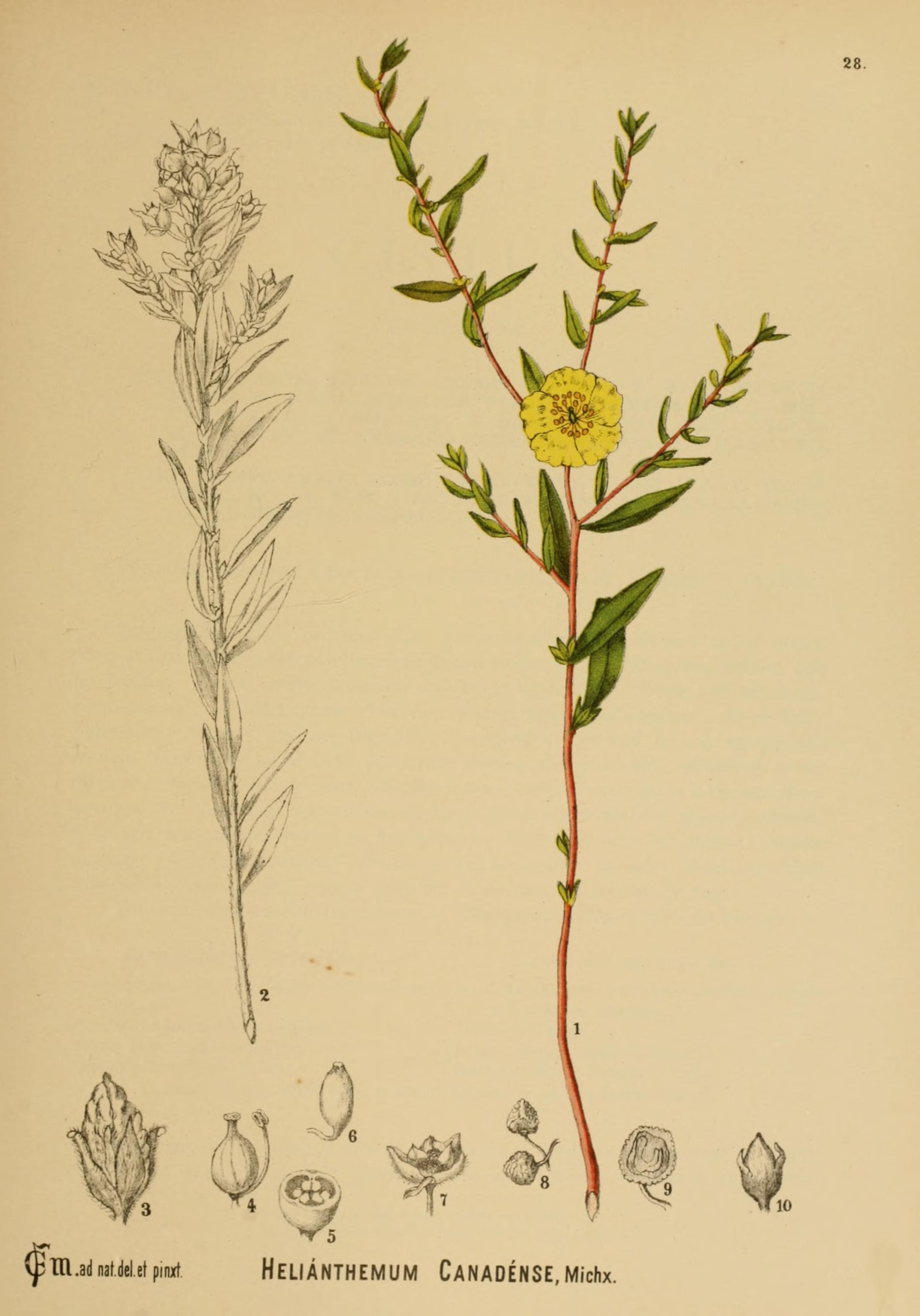 Title: American medicinal plants; an illustrated and descriptive guide to the American plants used as homopathic remedies: their history, preparation, chemistry and physiological effects Year: 1887 (1880s) Authors: Millspaugh, Charles Frederick, 1854-1923 Subjects: Botany, Medical; Botany Publisher: New York, Boericke & Tafel Text Appearing Before Image: ' Text Appearing After Image: 28. nat.dei.et pjnxt. HeLIANTHEMUM CANADENSE,Michx.